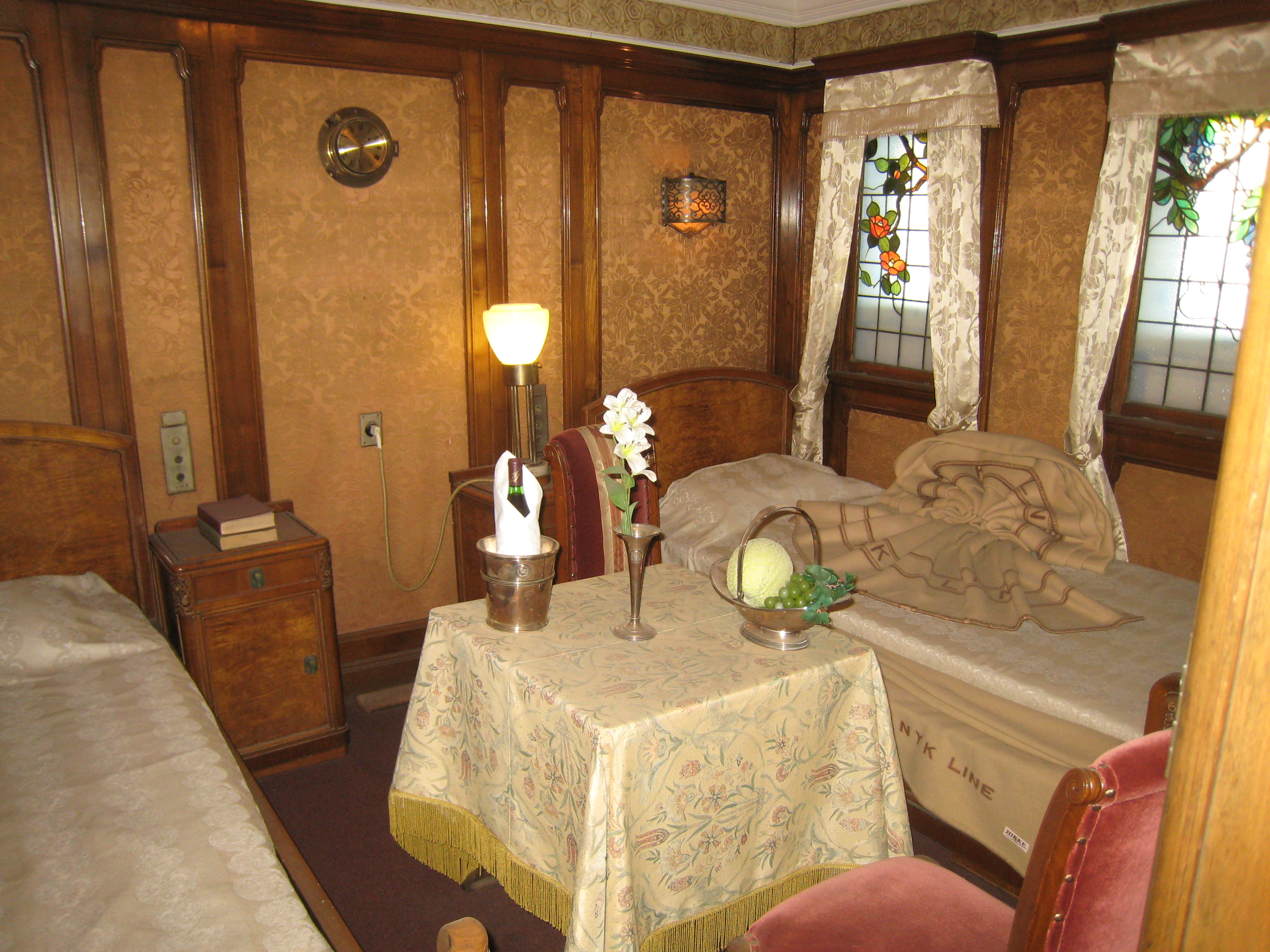 Bedoom of an apartment at Hikawa Maru